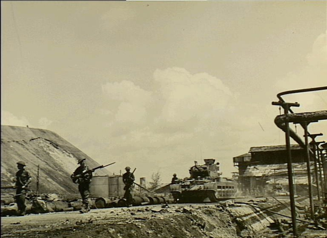 Australian troops from the 2/10th Infantry Battalion advance alongside Matilda tanks of the 1st Armoured Regiment during fighting around Balikpapan, July 1945